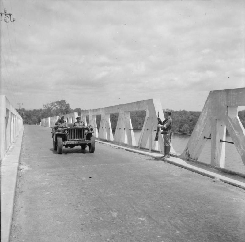 The Allied Reoccupation of French Indo-china Lack of Allied troops led to some trusted Japanese prisoners of war being armed for guard duty. Here a Japanese sentry salutes the occupants of a passing British jeep.